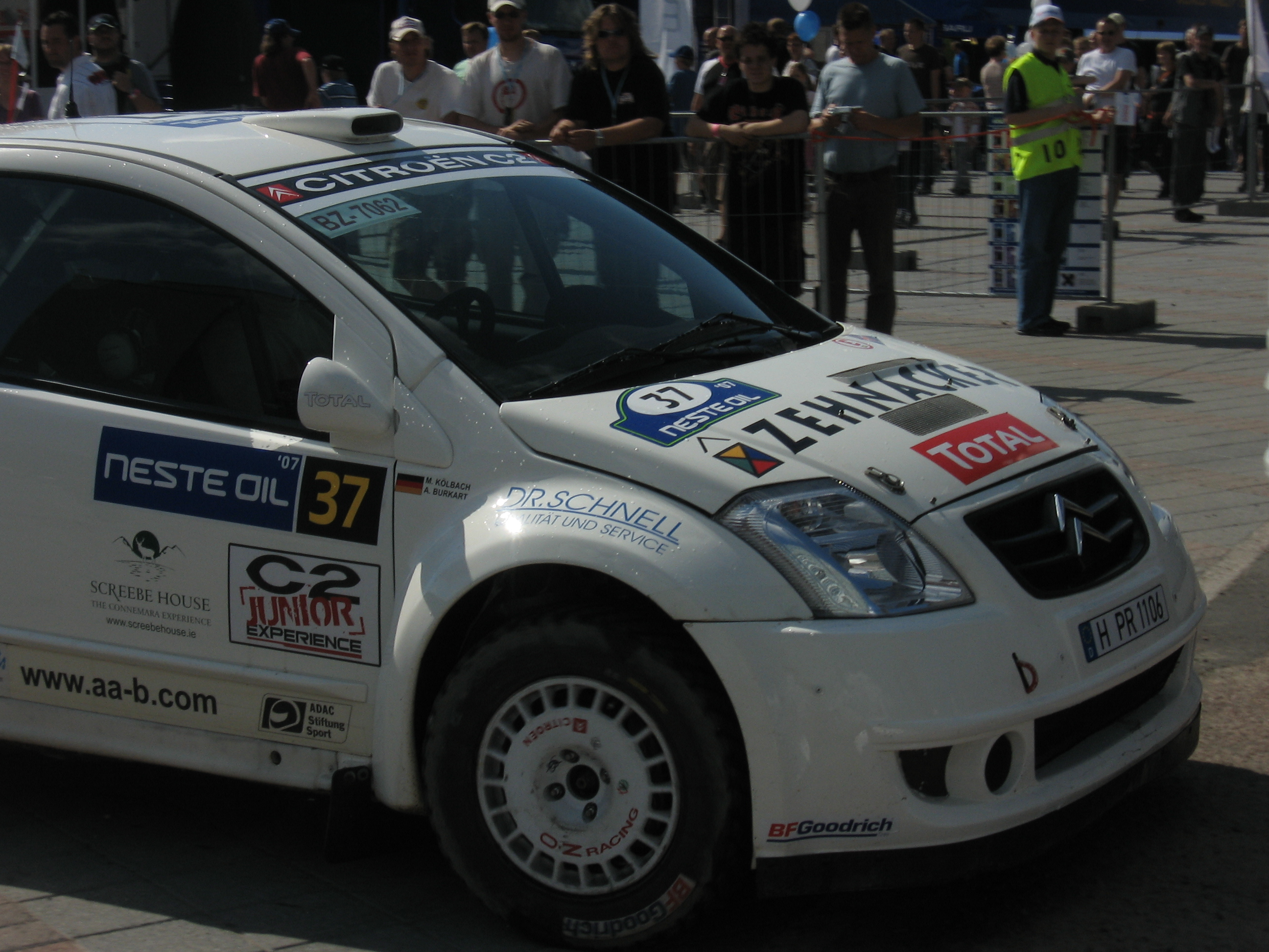 Action from the service park during service F in the 2007 Rally Finland.